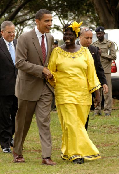 Original caption states: "Nobel Laureate Professor Wangari Maathai with US senator Barack Obama in Nairobi, Kenya."